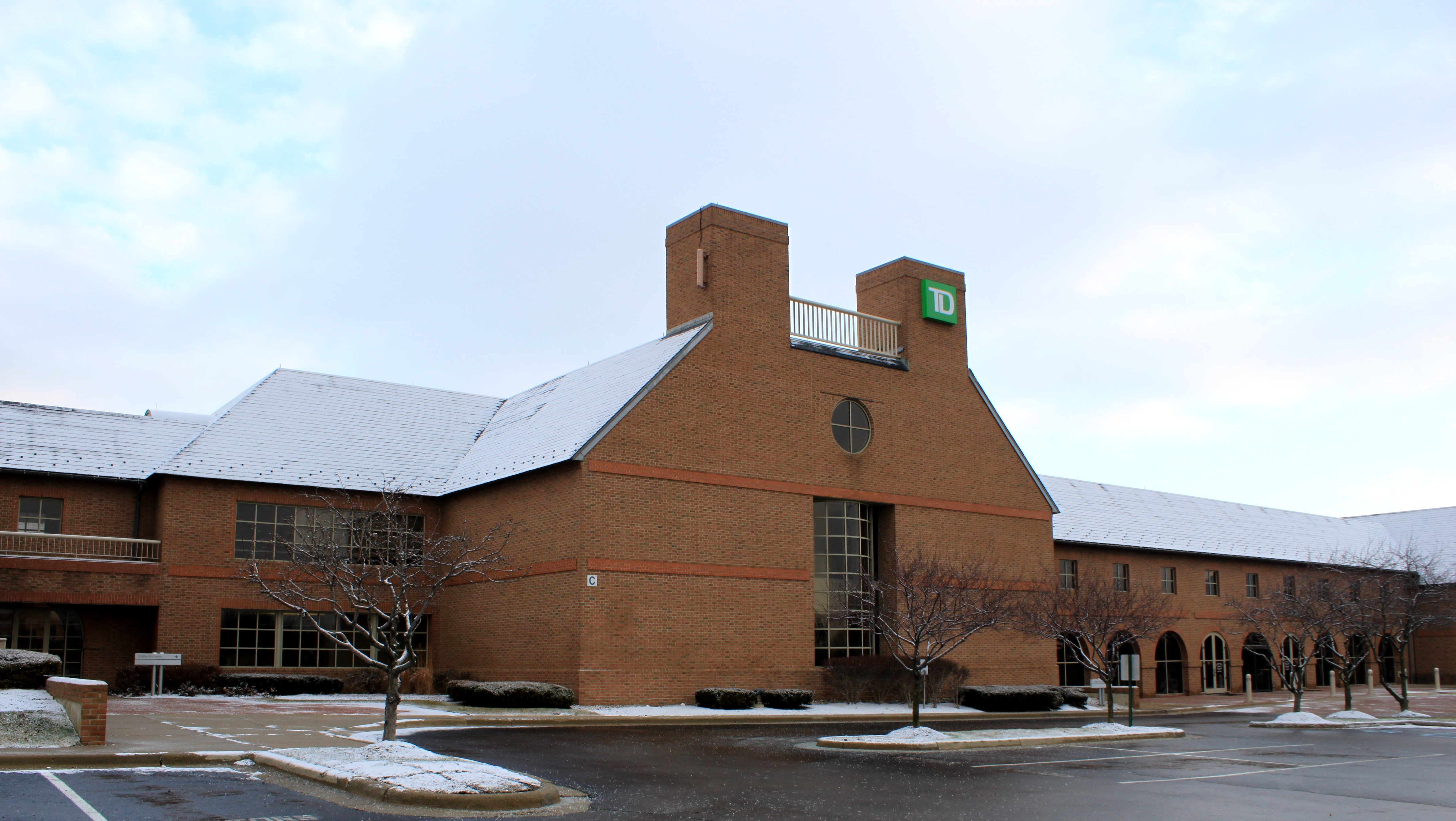 TD Auto Finance corporate offices, 27777 Inkster Road, Farmington Hills, Michigan.